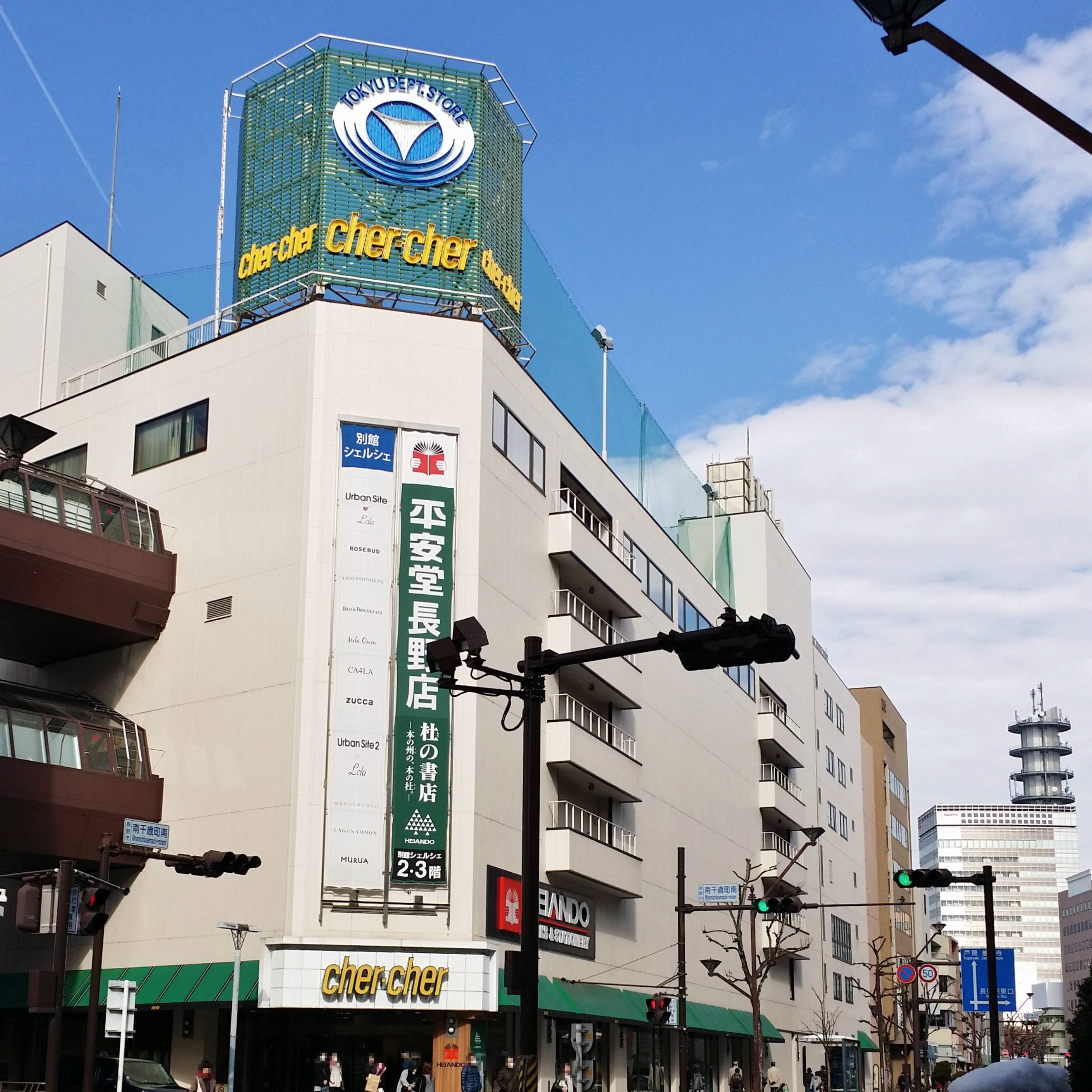 Nagano Tokyu Department Store cher-cher.